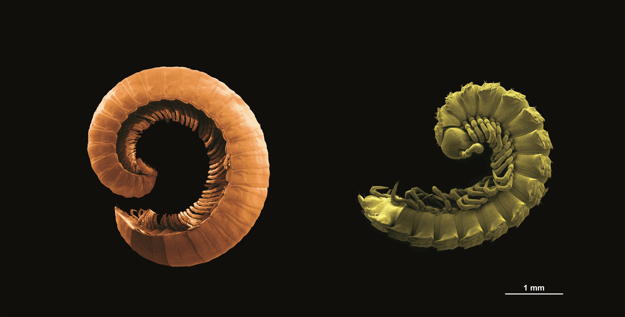 Introverted Millipede. Earth had been conquered 350 million years ago by the representatives of the arthropods, among which were the millipedes (Diplopoda) depicted on the picture. These ground-dwelling animals have a lot of segments with two pairs of legs on them. The animal on the left side is a member of a species of Julus, its body is composed of hard, interlocking, sliding parts. The other one on the right side is a member of a species of Polydesmus; it has a pair of defensive glands on each segment on its back. The photograph was taken by the scanning electron microscope Hitachi S-4700 with 70 times magnification and has been colored in Adobe Photoshop.